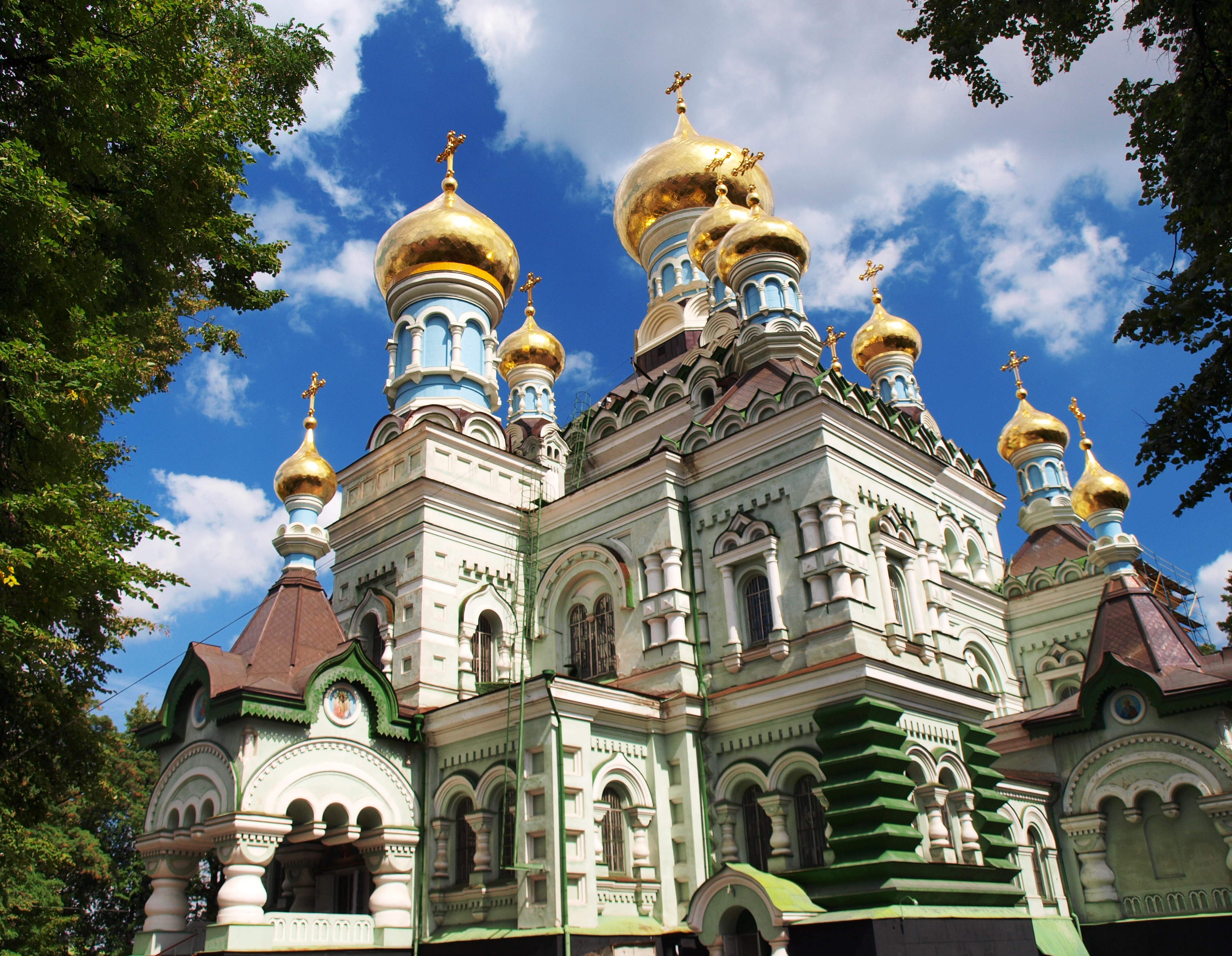 Pokrova Nunnery in Kiev